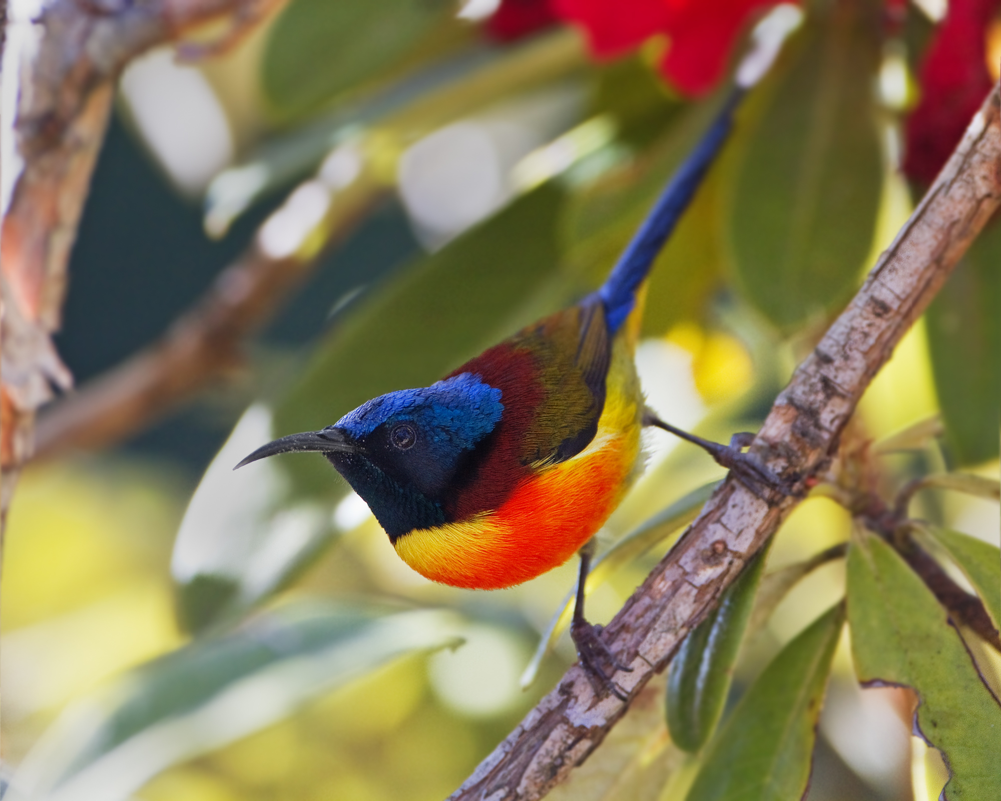 An adult male Green-tailed Sunbird (Aethopyga nipalensis angkanensis), Doi Inthanon National Park, Ban Luang, Chiang Mai, Thailand